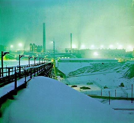 Bunker Hill Smelter, operating in the 1970s